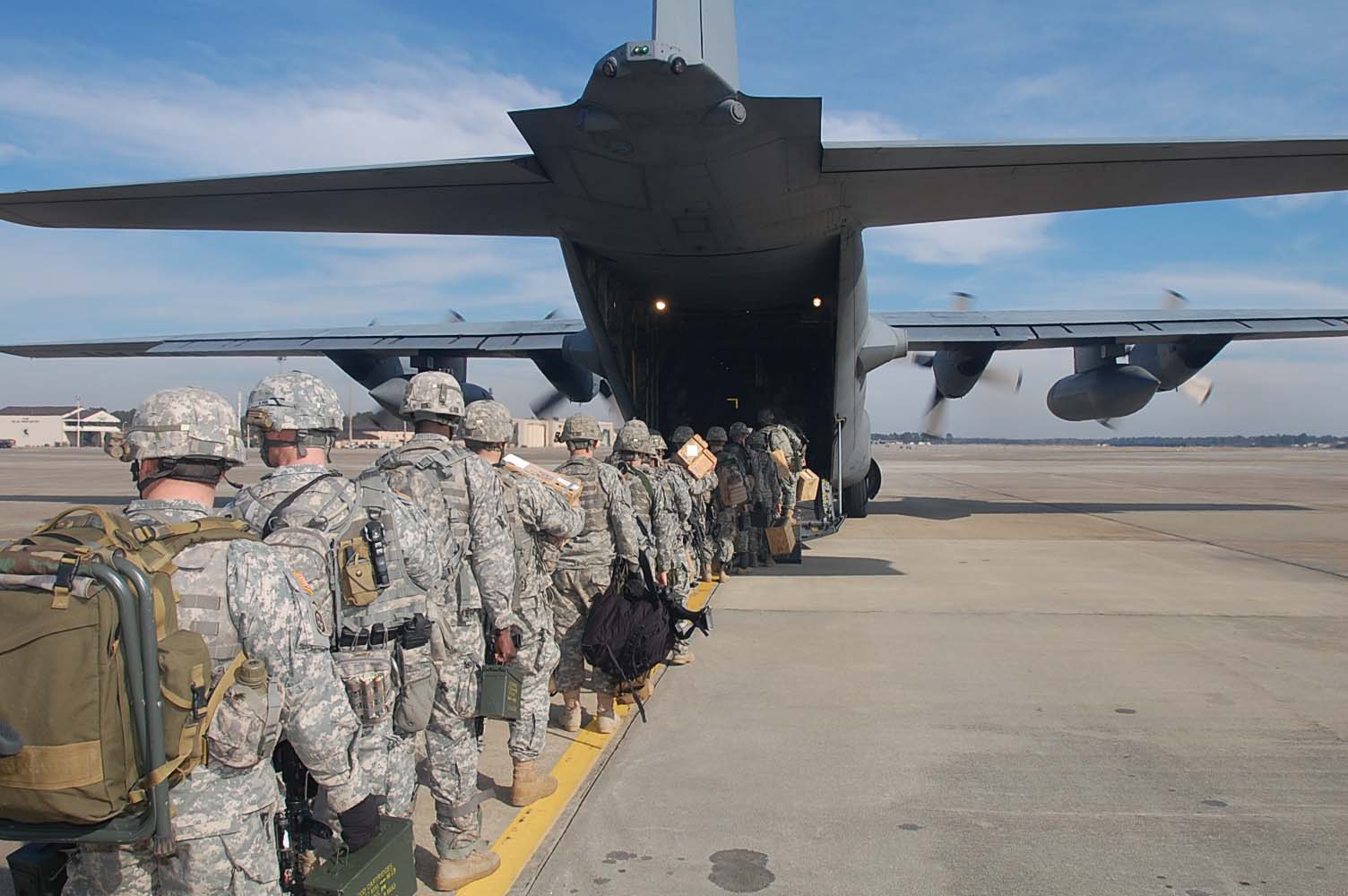 Paratroopers of Bravo Troop, 1-73 Cav, 2nd Brigade Combat team, 82nd Airborne Division board onto a C-130 Hercules aircraft at Pope Air Force Base early Thursday morning Jan 14, 2010 to deploy in support of the earthquake that occurred in the capital of Port-au-Prince, Haiti earlier this week. The 2nd BCT is the 82nd Airborne Divisionís Global Response Force that has been training for real world emergency response missions. These are the first group of paratroopers going to Haiti to provide Humanitarian Aid.